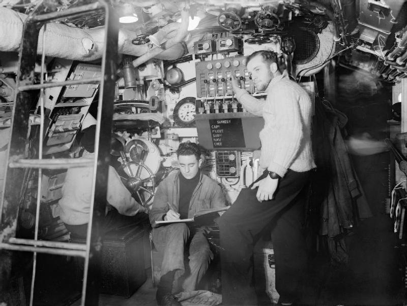 The Royal Navy during the Second World War "Torps" Sub Lieutenant G F McKenzie, RNVR, at the torpedo control panel of HMSM SERAPH, in Holyhead Harbour. He comes from Echuca, Victoria and was at school before the war. Keeping the firing log with him is Able Seaman K R Payne, of Cleethorpes, Lincolnshire, who was in the merchant navy before the war.